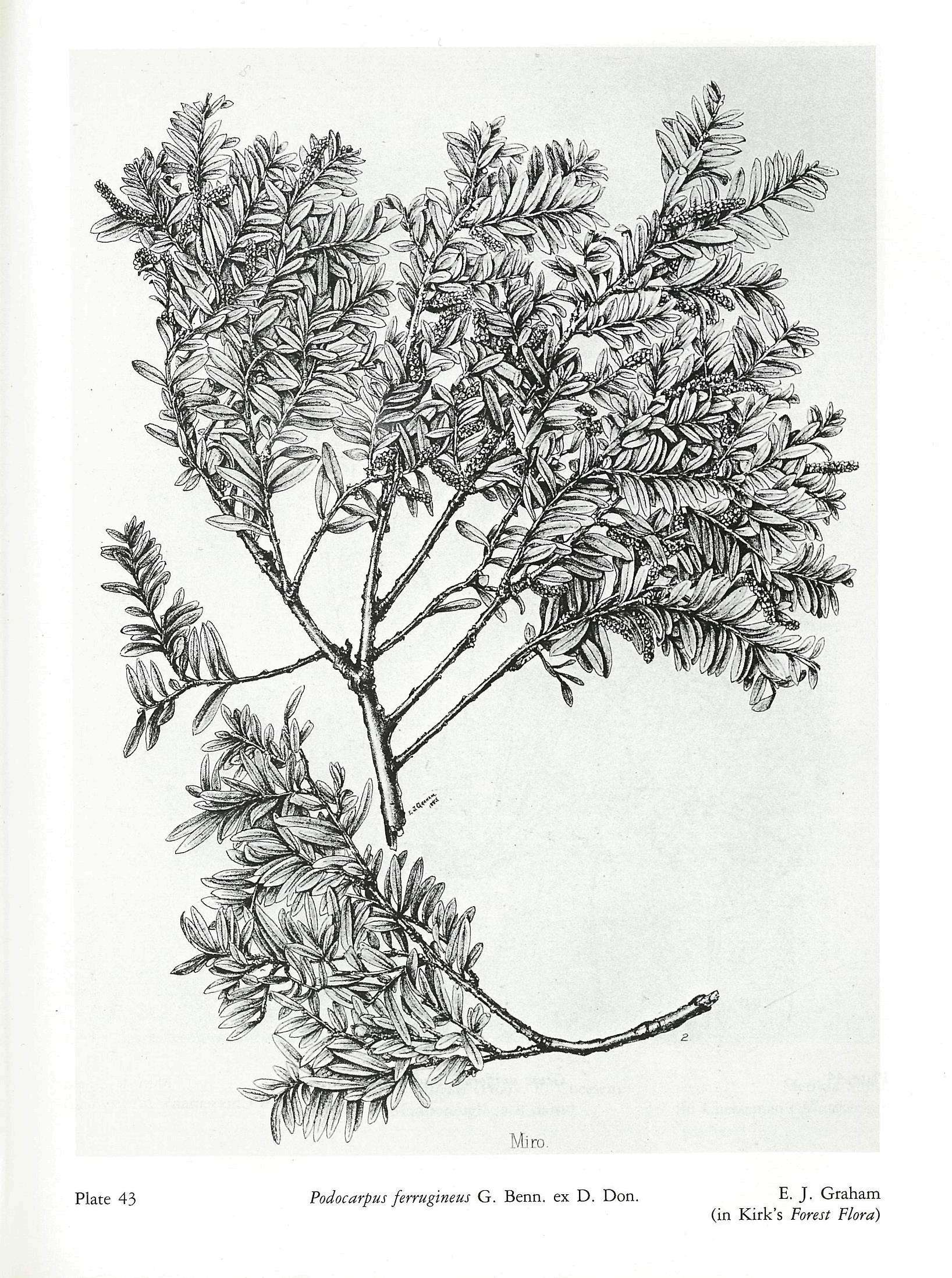 Plate 43 Podocarpus ferrugineus G. Benn. ex D. Don. E. J. Graham (in Kirk's Forest Flora)